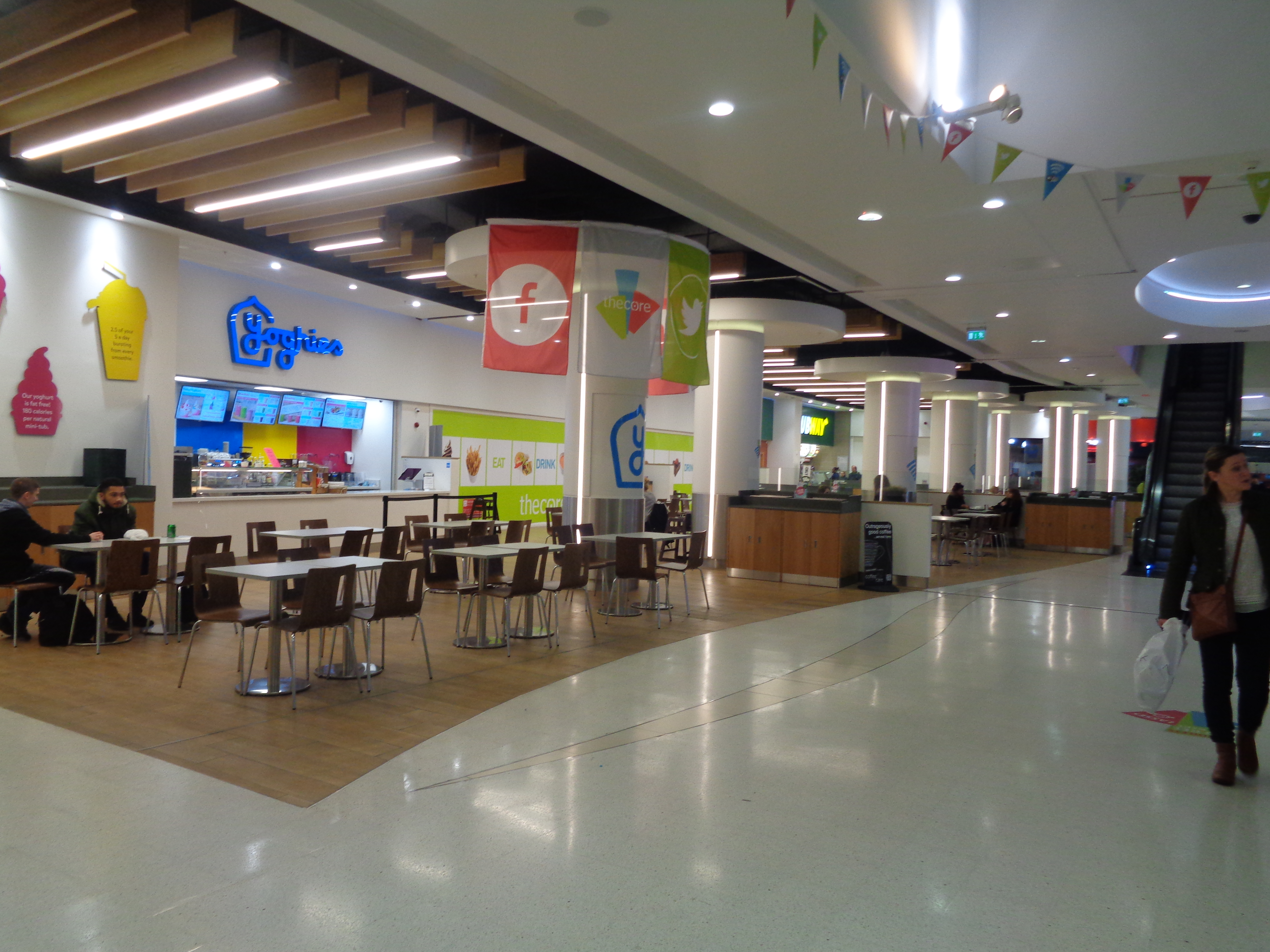 Food court (bit of a pretentious name I know) in The Core (it's latest name, usually just called 'the Schofield Centre), Leeds, West Yorkshire. Taken on the afternoon of Monday the 21st of December 2015.